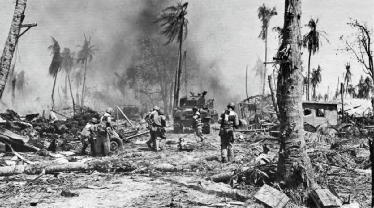 U.S. infantry and M4 Sherman tanks attack amid the rubble of fortifications on Kwajalein on 2 February 1944. Note the 37 mm gun brought into position.